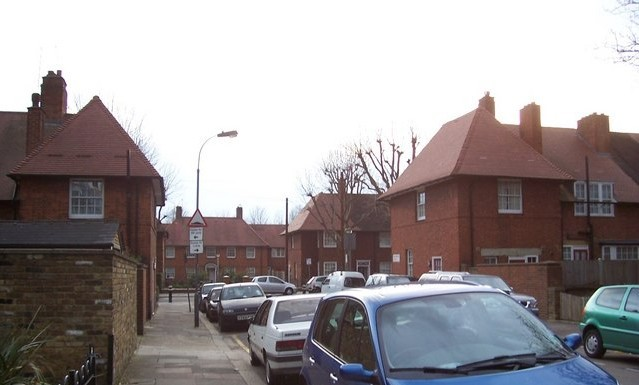 Braybrook Street Braybrook Street looking towards Wulfstan Street